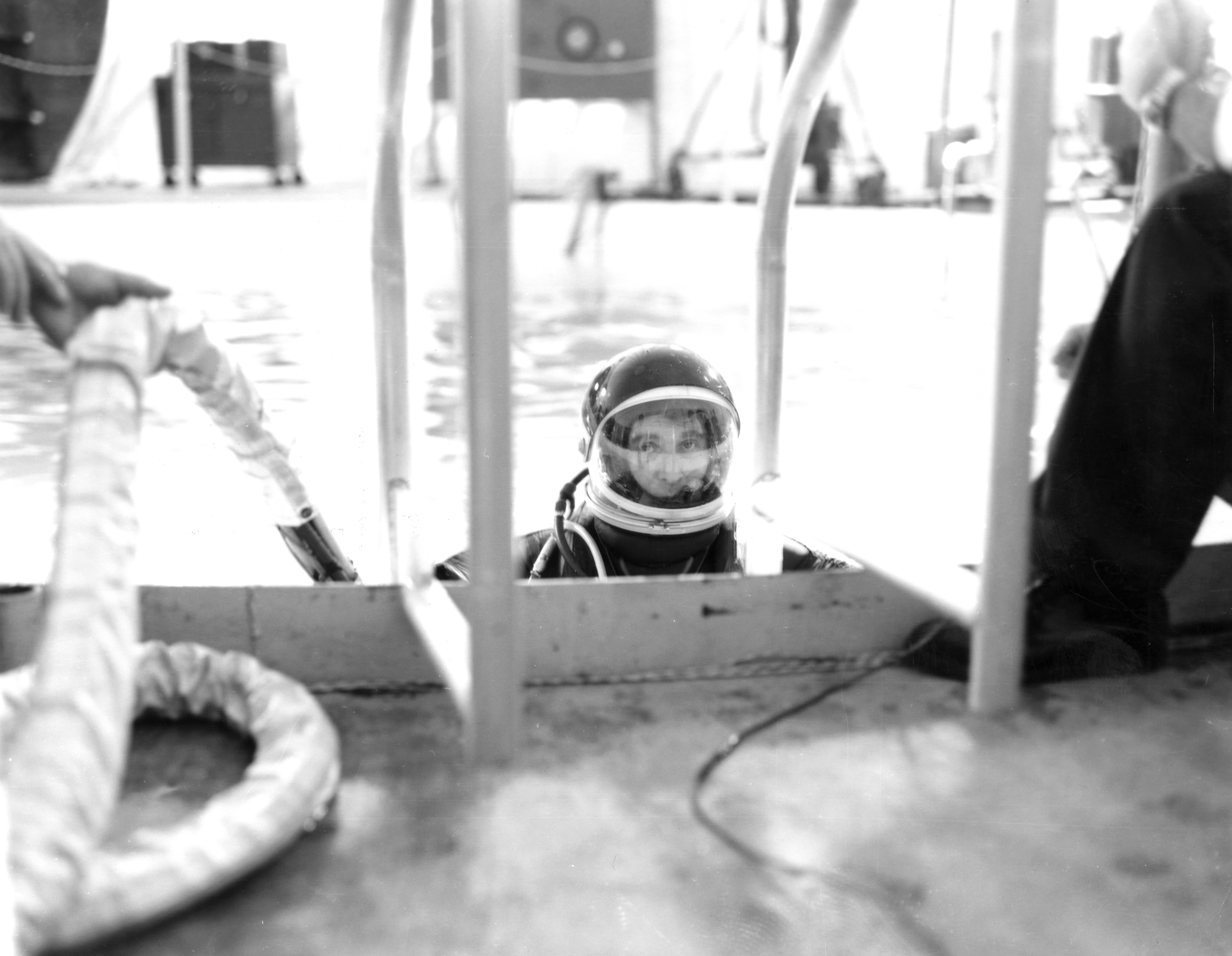 Wernher von Braun on the ladder to the 25-foot diameter Neutral Buoyancy Simulator - Marshall Space Flight Center (MSFC) Director, Dr. von Braun, submerges after spending some time under water in the MSFC Neutral Buoyancy Simulator (NBS). Weighted to a neutrally buoyant condition, Dr. von Braun was able to perform tasks underwater which simulated weightless conditions found in space.